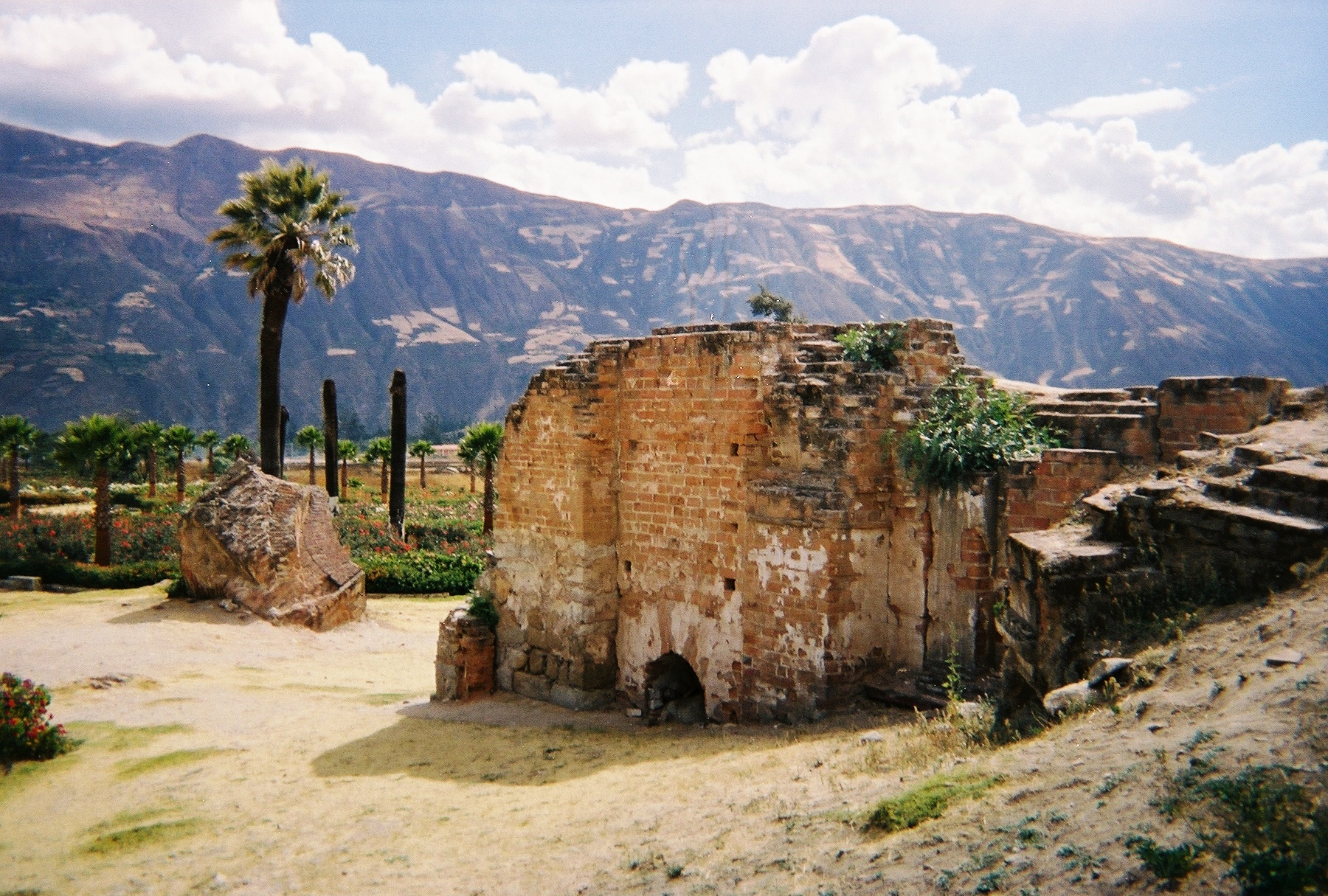 What remains of old Yungay's cathedral. August 2009.